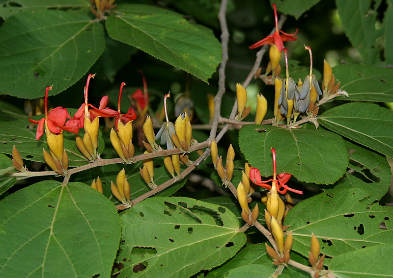 Helicteres isora - East Indian screw tree, nut-leaved screw tree • Bengali: antamora • Hindi: bhendu, damni, jonka phal, kapasi, मरोड़ फल maror phal • Kannada: yedamuri • Malayalam: isora-murri, valampiri • Marathi: अटी ati, धामणी dhamani, kapaisi, केवण kewan, मुरडशेंग muradsheng • Oriya: murmuria • Sanskrit: अवर्तनि avartani, मृग शृङ्ग mrigashringa • Sindhi: vurkatee • Tamil: வலம்புரி valampuri • Telugu: నులితడ nulitada • Urdu: marorphali - in Narsapur, Medak district, Andhra Pradesh, India.